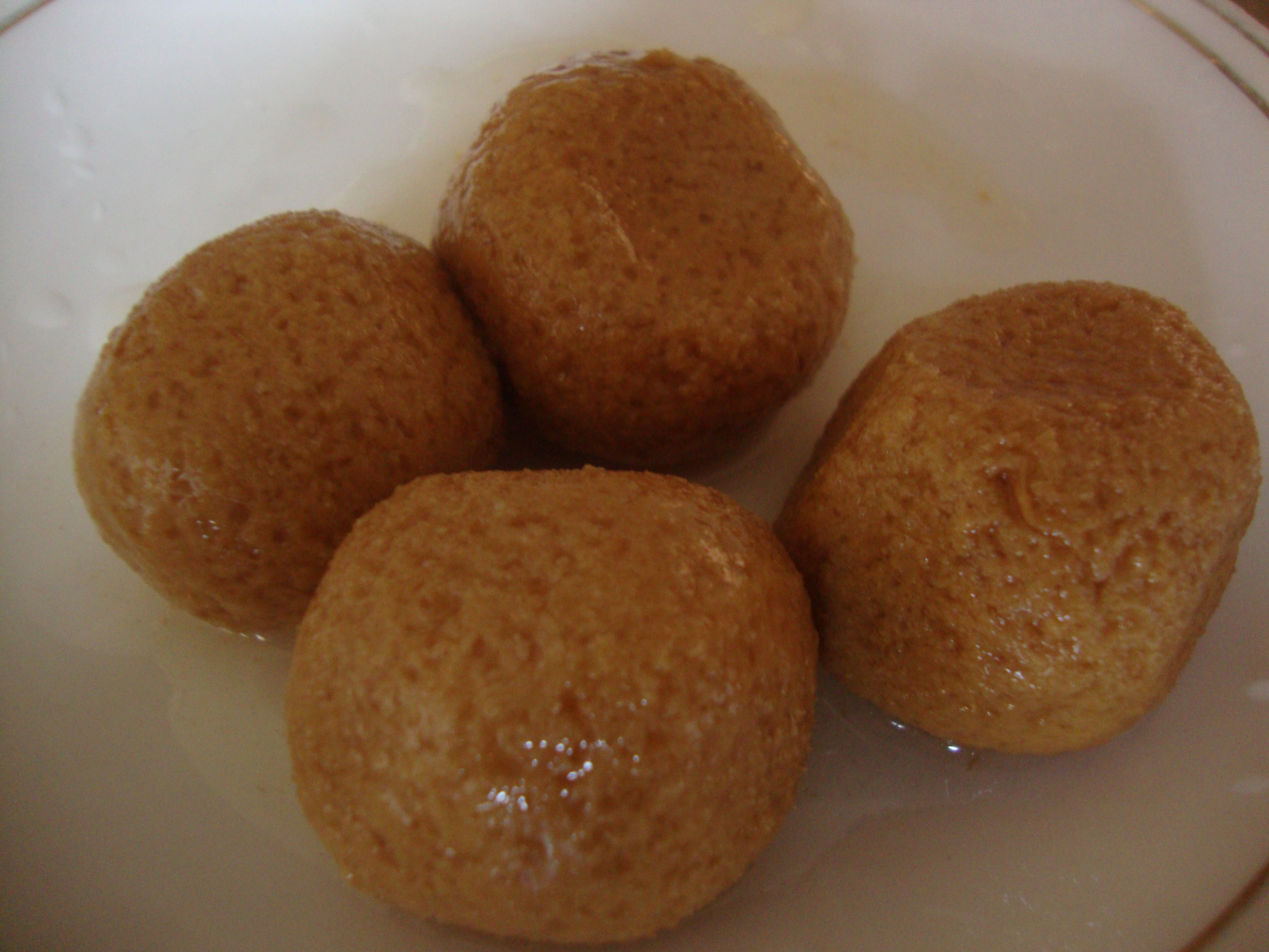 Rasagola (Rasgulla) is a very popular cheese based, syrupy sweet dish originally from the Indian state of Orissa. It is popular throughout India and other parts of South Asia. The dish is made from balls of chhena (an Indian cottage cheese) and semolina dough, cooked in sugar syrup.